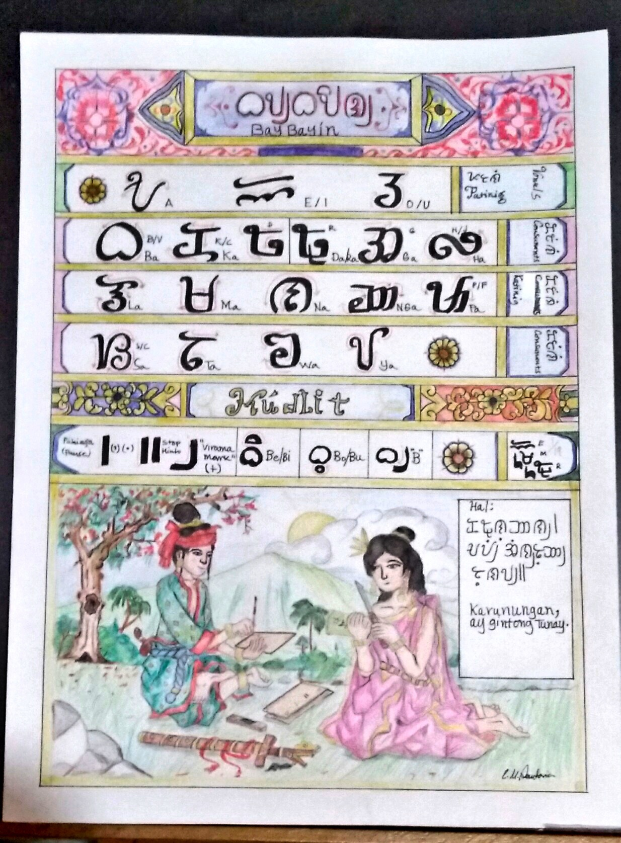 An Illuminated Baybayin chart. Features a two Medieval Filipino young girl and boy practicing their ability to write using stylus and Palm leaves and the common bamboo and knife which is the basic tools for baybayin writing.